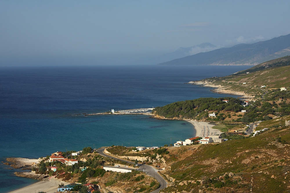 Armenistis and Gialiskari on the Northern part of Ikaria island, Greece.